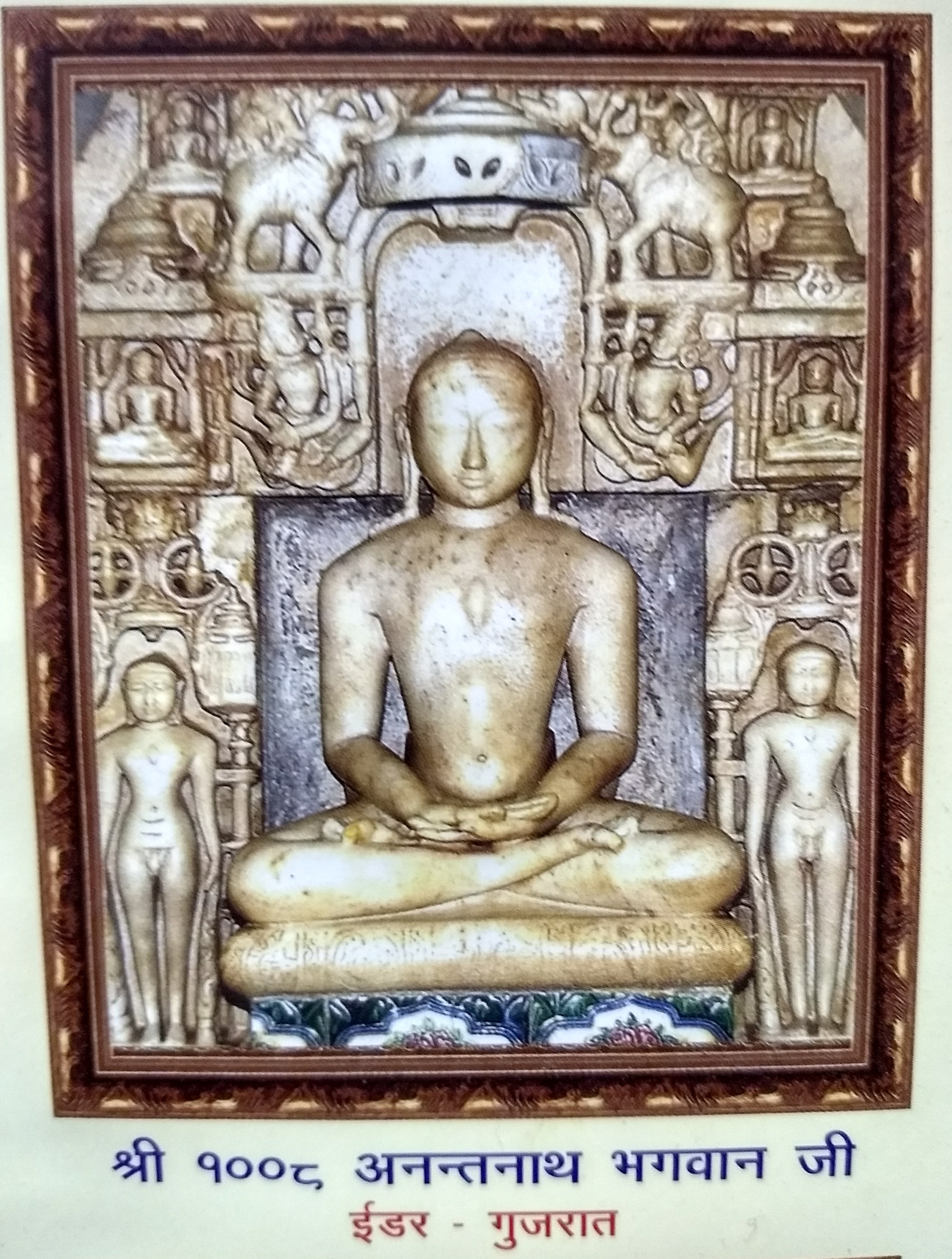 Anantanatha Idol in Idhar Jain temple, Gujarat